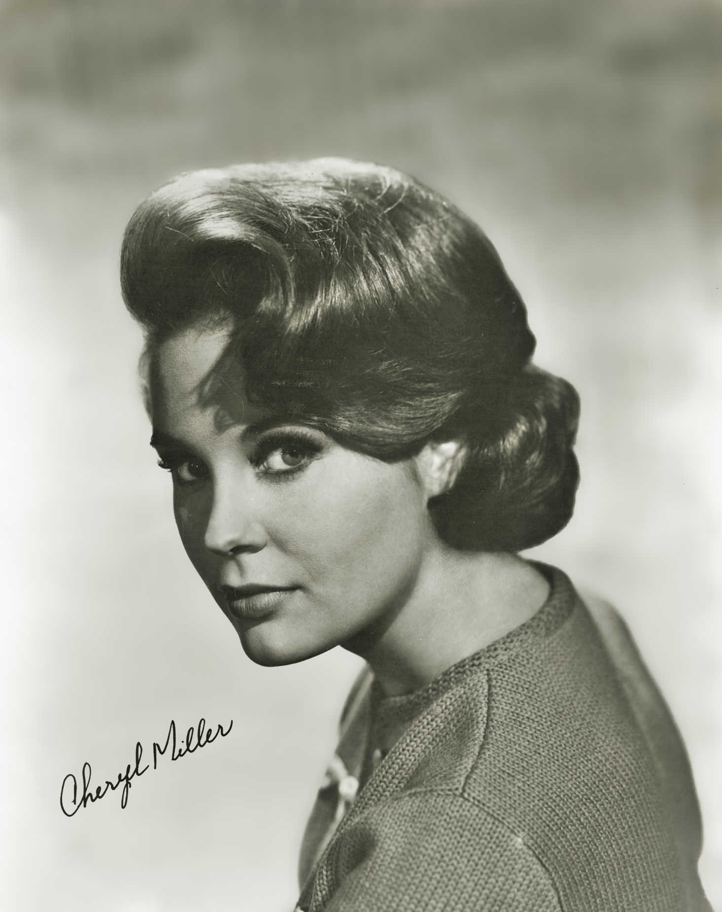 Portrait of actress, Cheryl Lynn Miller